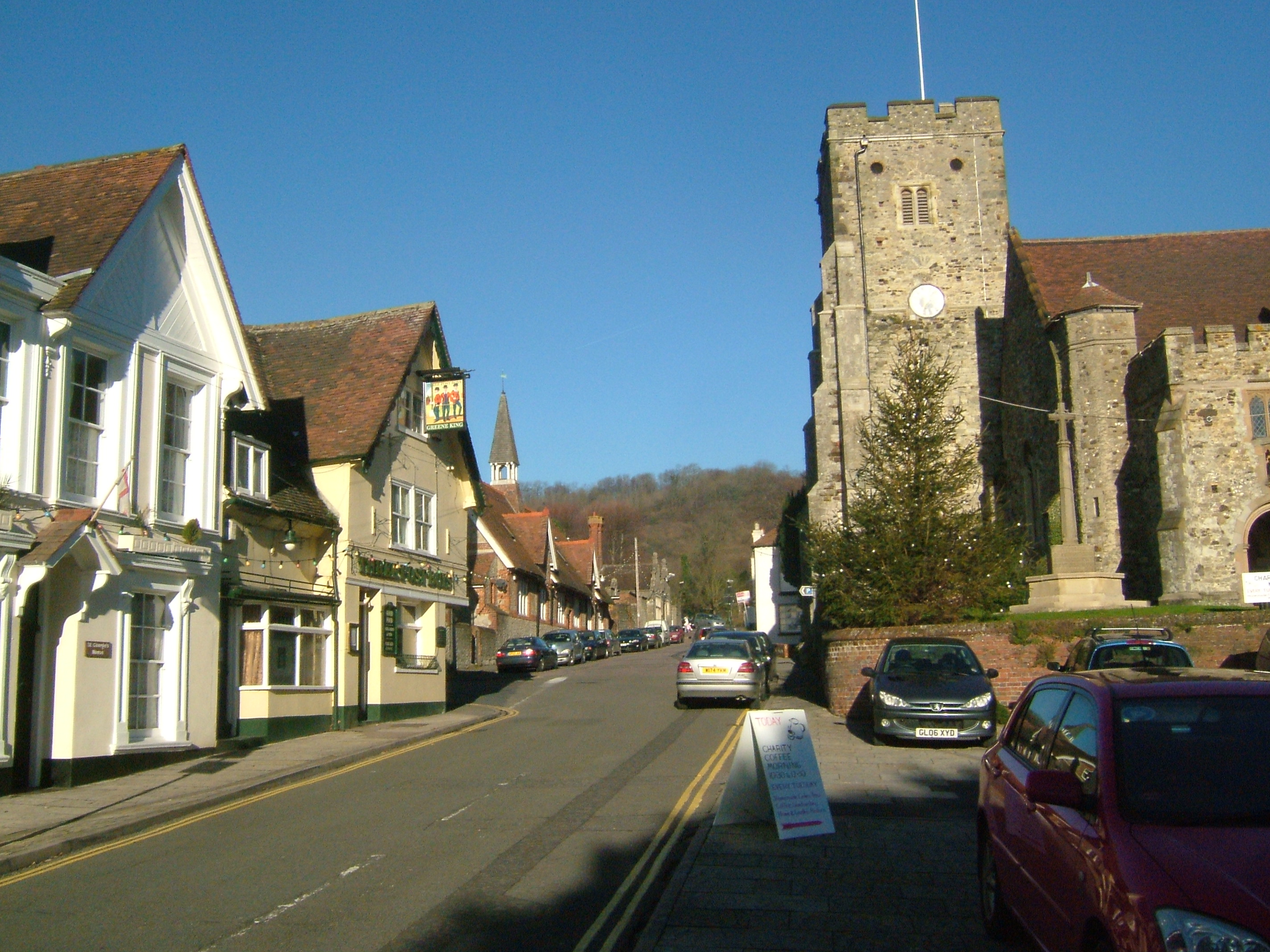 Wrotham in Kent, is a parish in Kent, England, south of Gravesend. The High Street and church, looking to the ridge of the North Downs. At the end of the street the road dips and there are the Pilgrims' Way, the A20 and the M20. The High Street was the main road from Gravesend to Tonbridge.